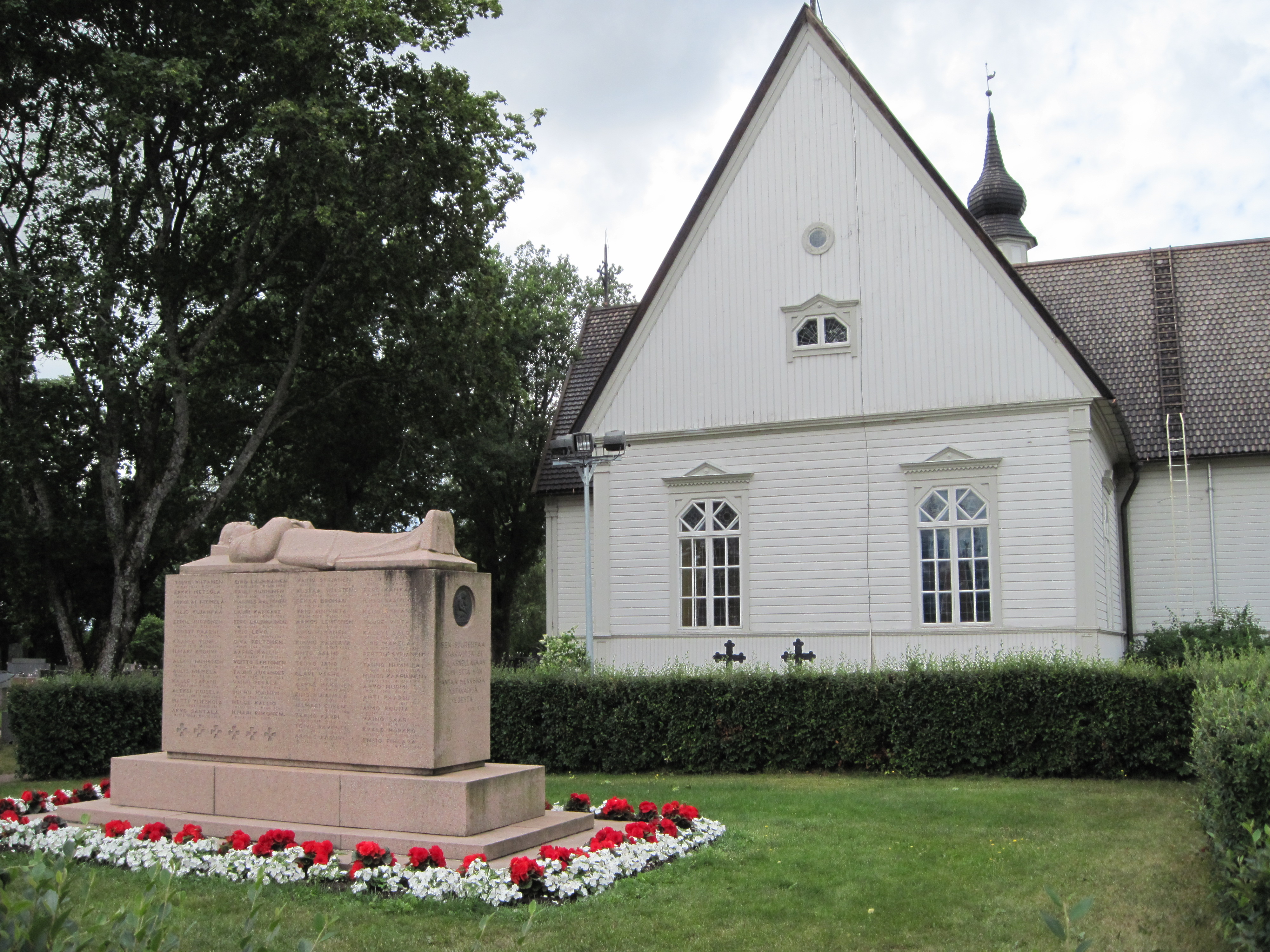 Soldier's graves at Marttila church